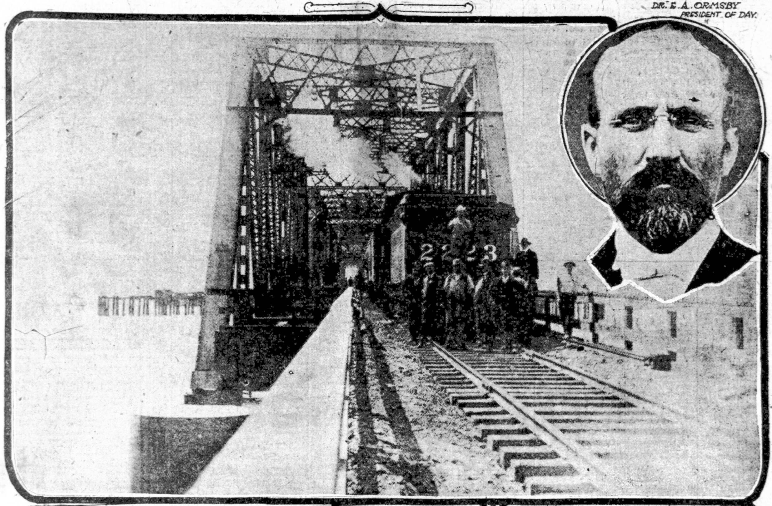 Caption: "At the upper left is shown the first passenger train to cross the Dumbarton cutoff standing on the bridge, with the train crew and some of the passengers grouped behind the engine."